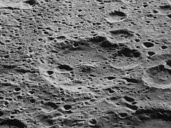 Oblique view of Crommelin, on the far side of the moon, facing west.